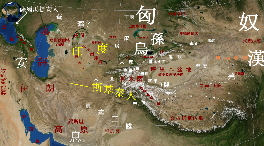 Central Asia in the Han Dynasty